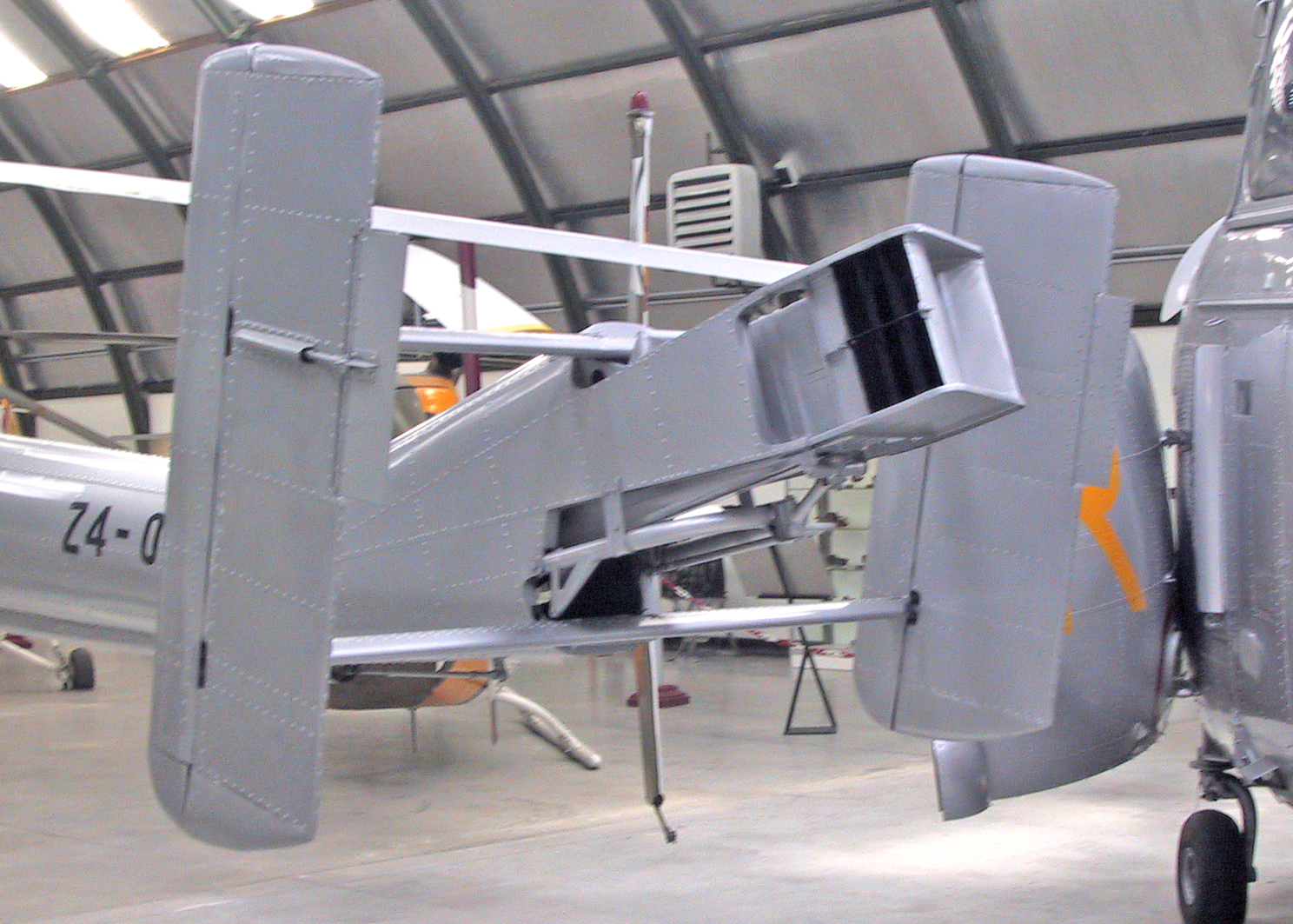 Photograph taken in "Museo del Aire", Spain. I am the author of this picture, and I'd desire everybody could see it freely in Wikipedia. This image is intended to be displayed in Aerotécnica AC-14 article.